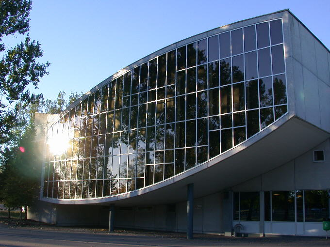 Växjö Katedralskola, the aula